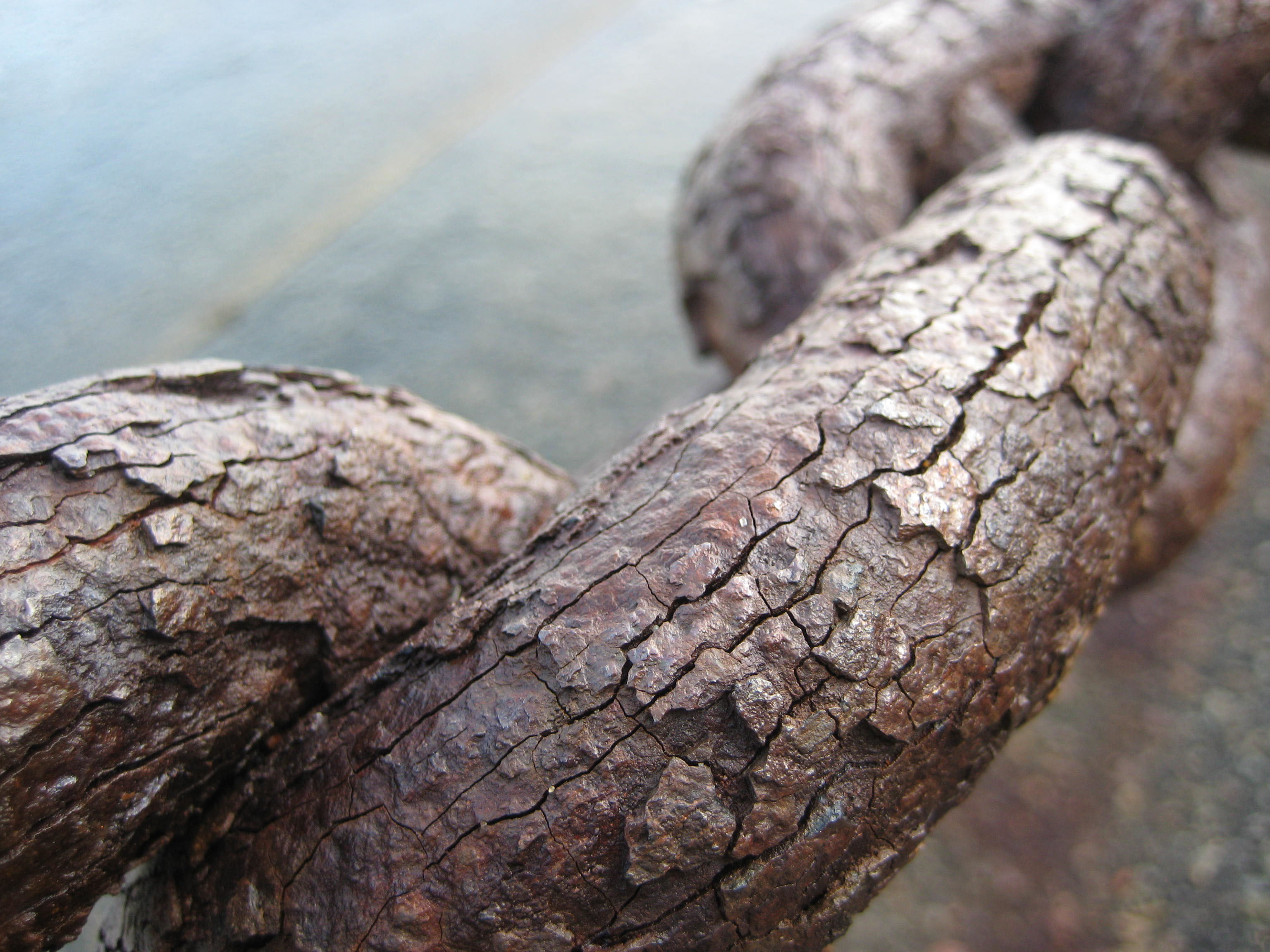 Heavy rust on the links of a chain near the Golden Gate Bridge in San Francisco; it was continuously exposed to moisture and salt-laden spray, causing surface breakdown, cracking, and flaking of the metal. Derived from File:RustChain.JPG by Marlith, airbrushing the blown out upper-left corner.